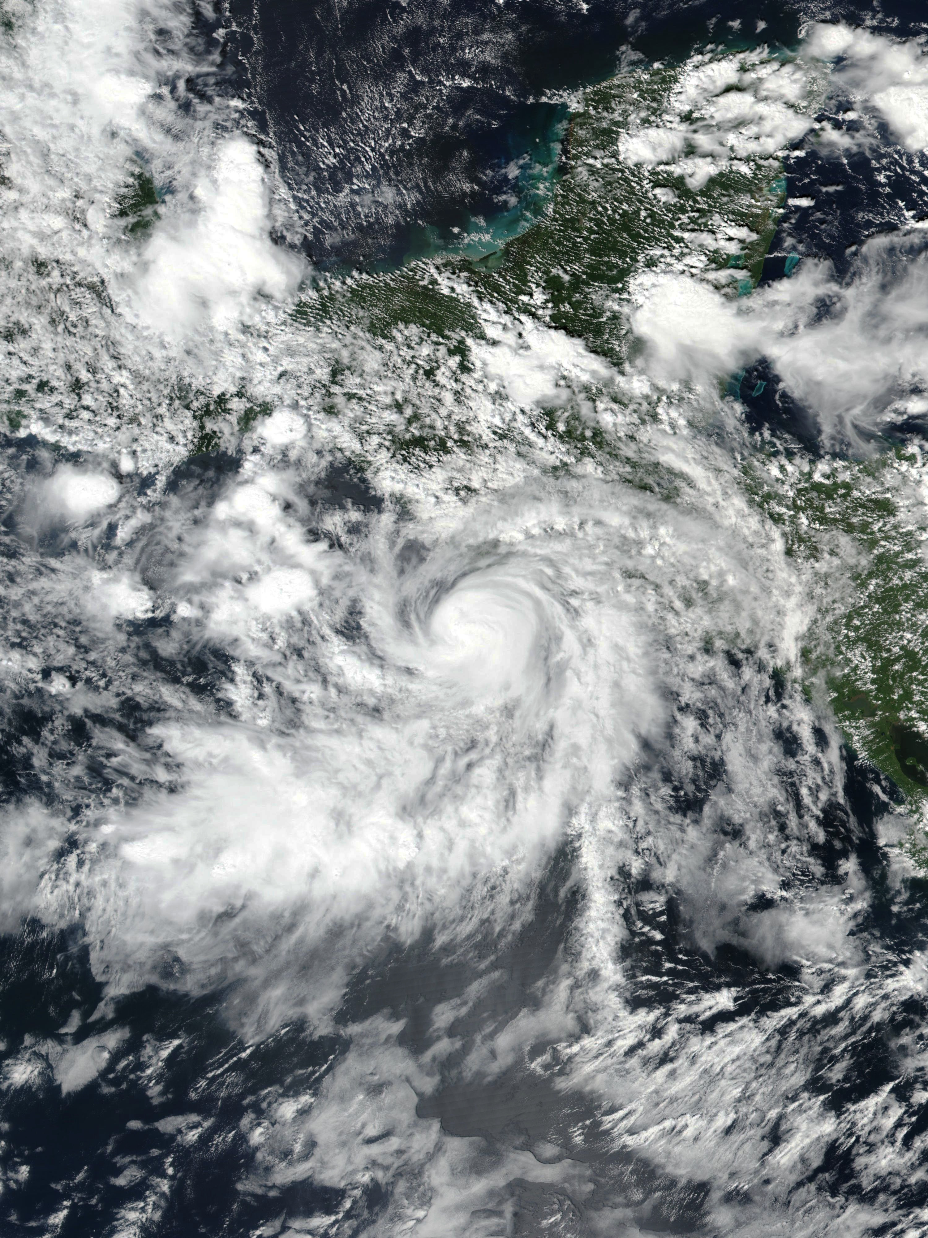 Tropical Storm Vicente on October 19, 2018